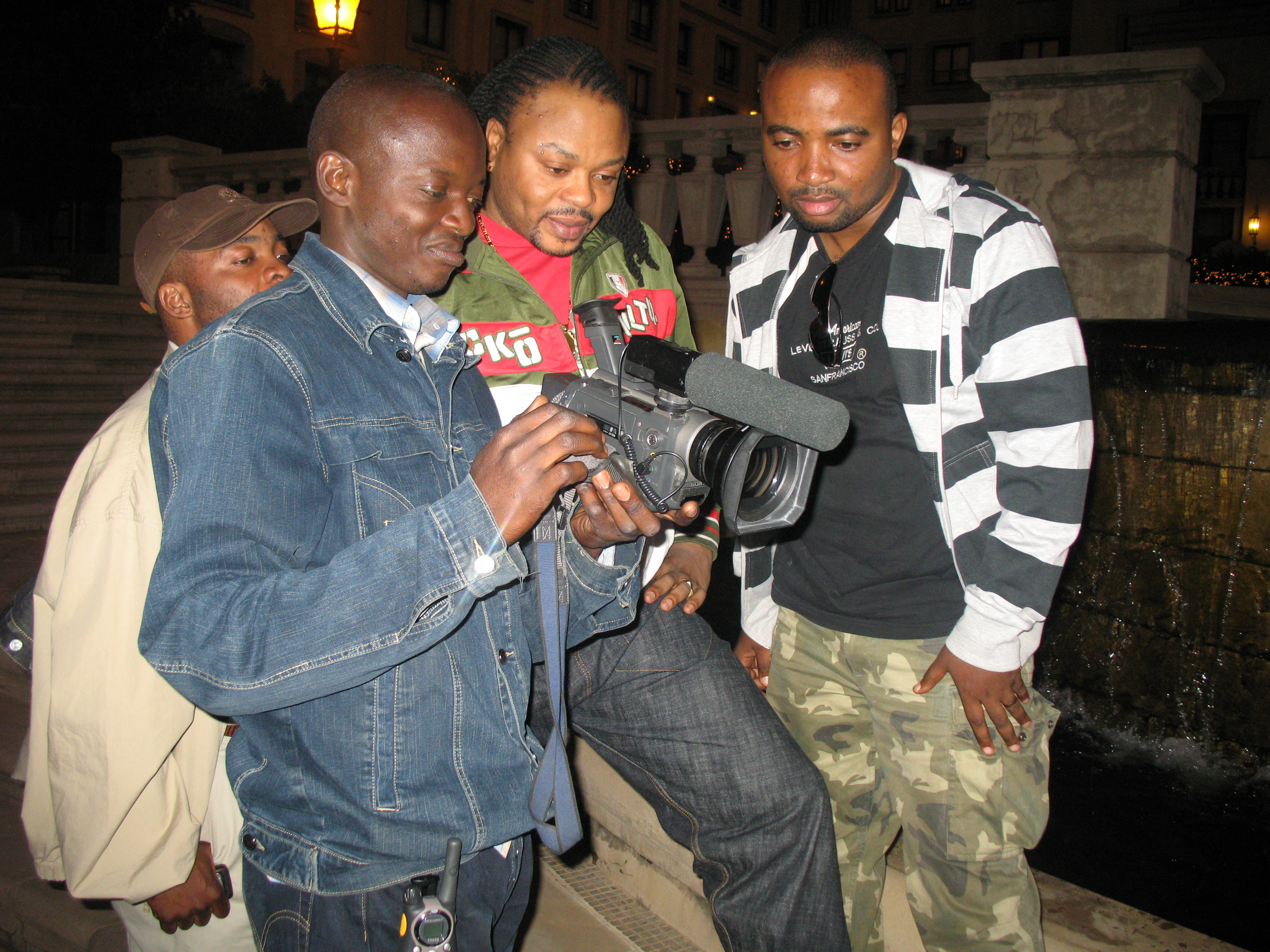 Venant Mambumina Imhotep with JB Mpiana in Johannesburg shooting Alino Kizaza music Video